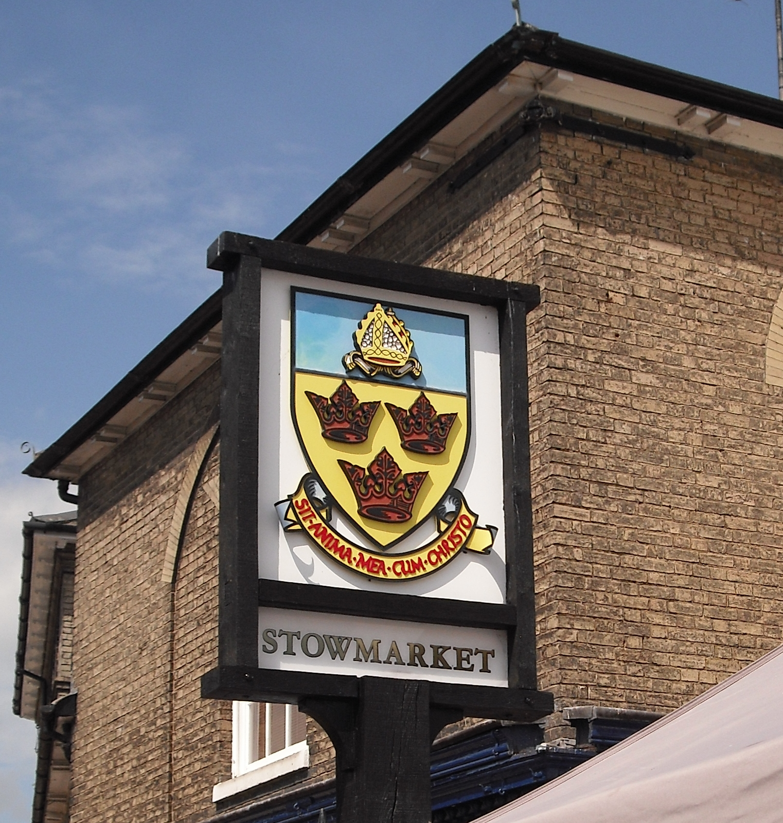 Stowmarket Town Sign, Market Place, Stowmarket, Suffolk